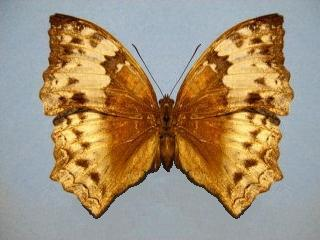 Cymothoe orphnina Karsch, 1894 (or related sp.) collected 5-12th May 2004 in the Gabela forest area of Angola